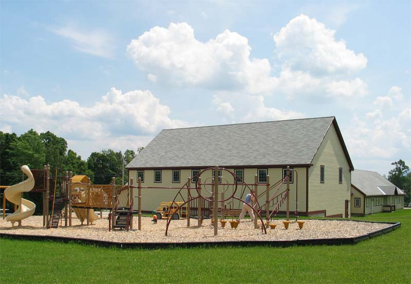 Description: Photograph of playground, community center and school in Tinmouth, Vermont Source: Photograph taken by Jared C. Benedict on 01 July 2004. Copyright: © Jared C. Benedict.